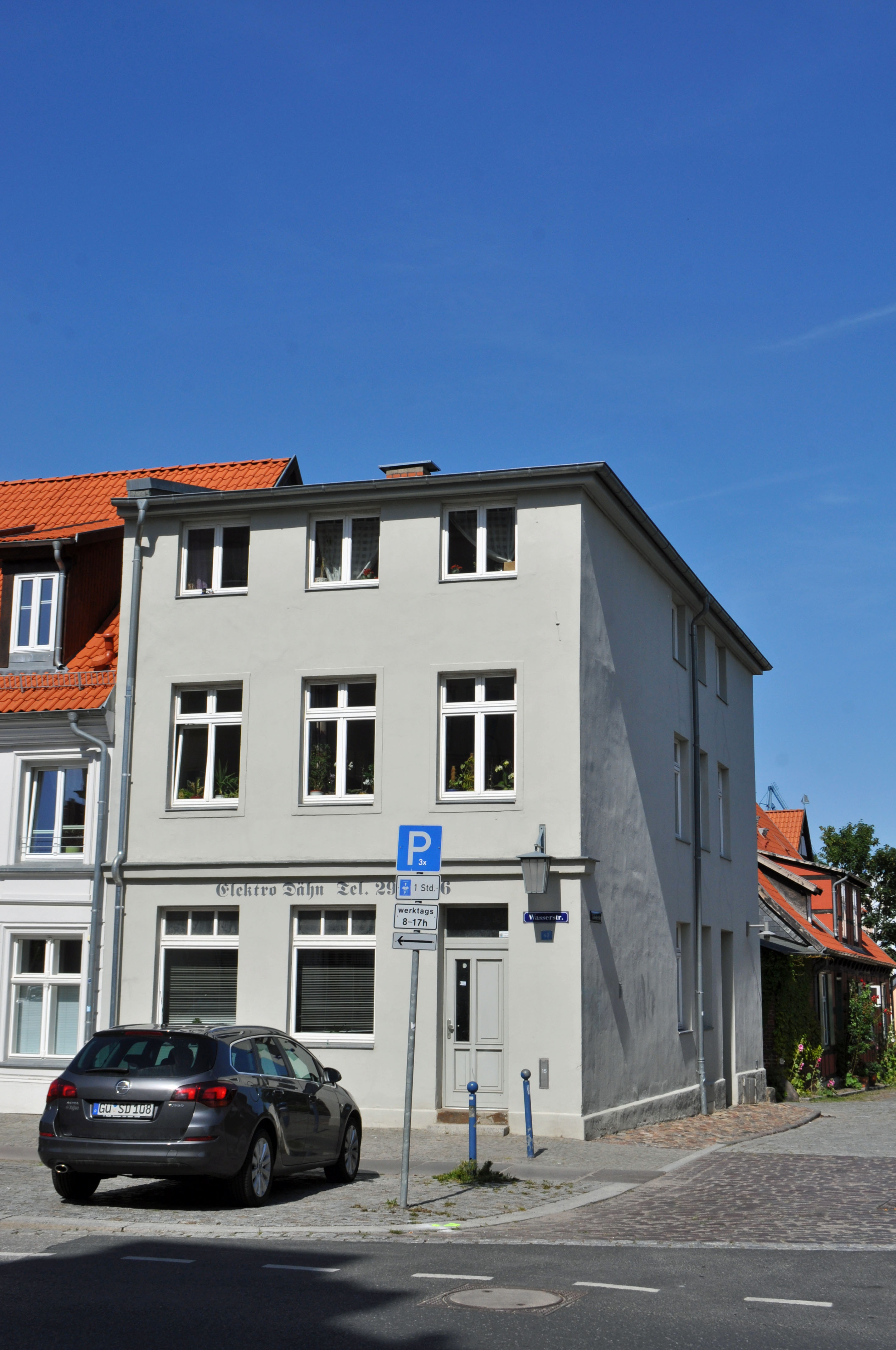 Stralsund, Wasserstraße 42 This is a photograph of an architectural monument.